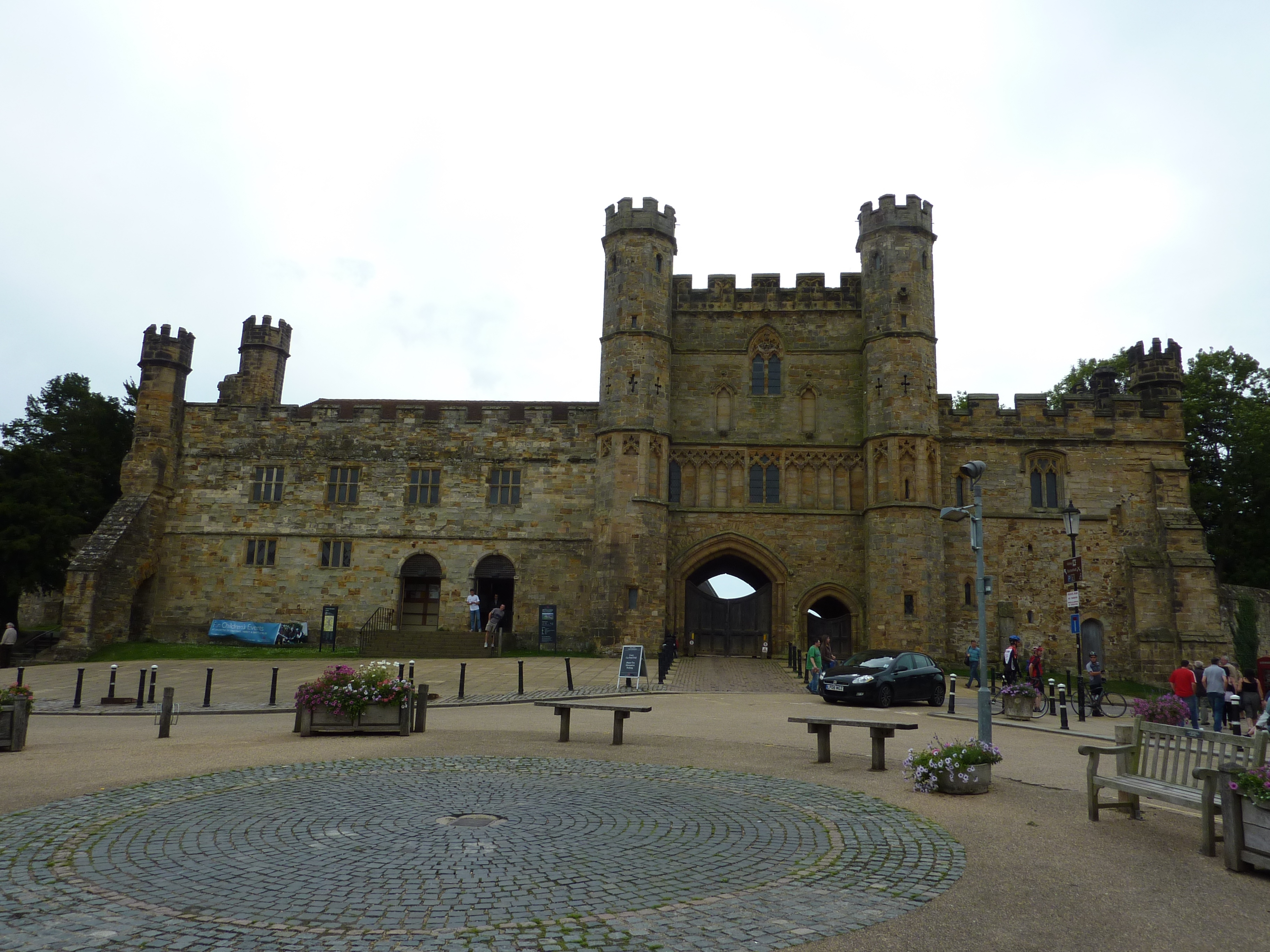 The Abbey, Battle